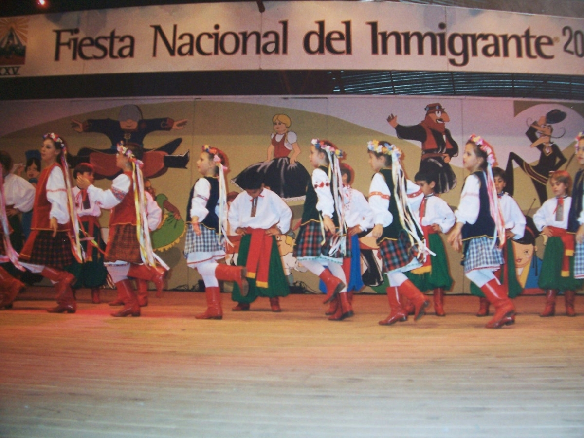 Ukranian ballet dancing in the main scene of the Immigrant's Festival, celebrated in Oberá, Misiones, Argentina.